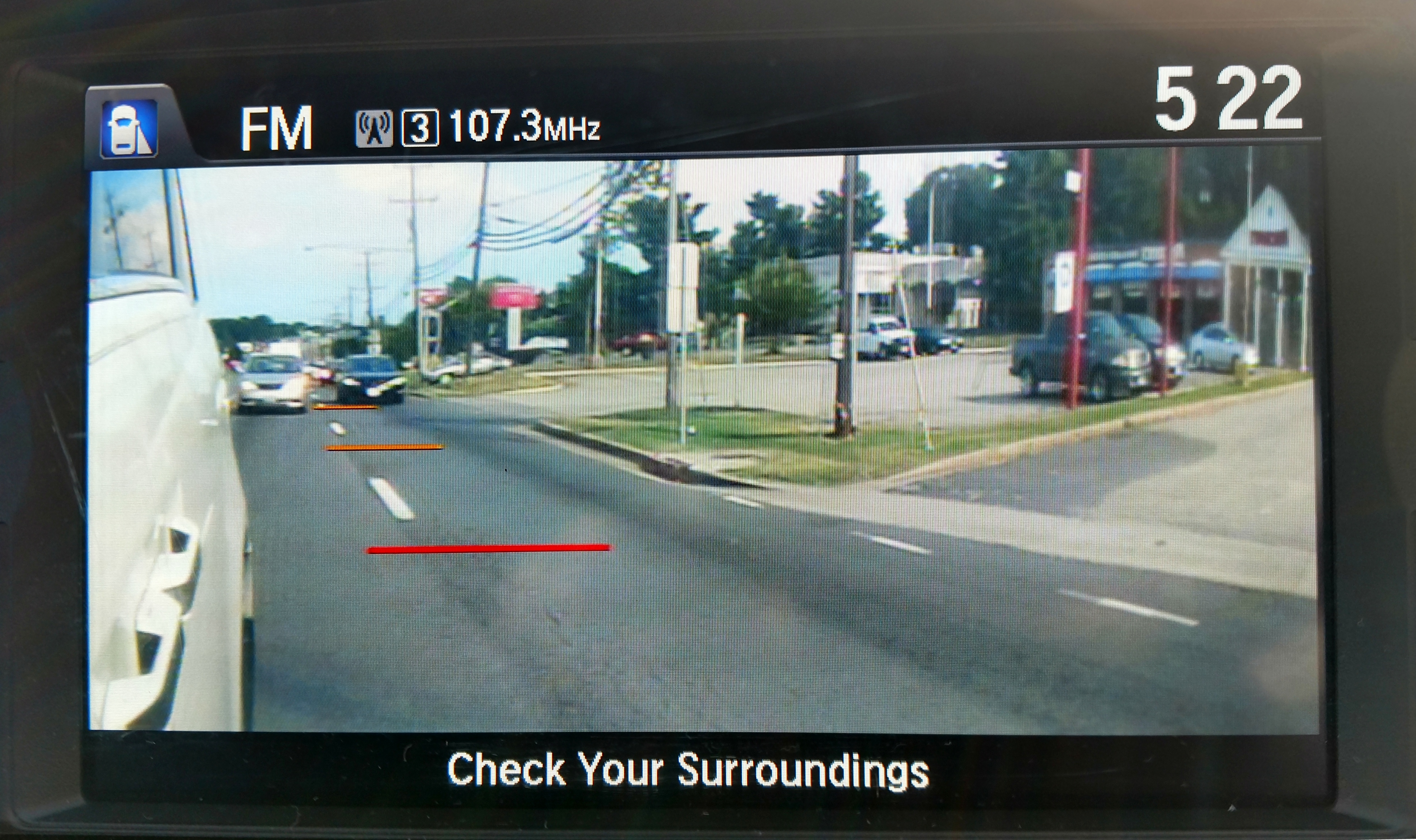 Image of a 2016 Honda Odyssey LaneWatch camera display in the center navigation screen